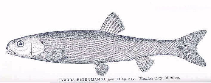 Evarra eigenmanni, gen.et sp. nov . Mexico City, Mexico Subject: Evarra eigenmanni Tag: Fish